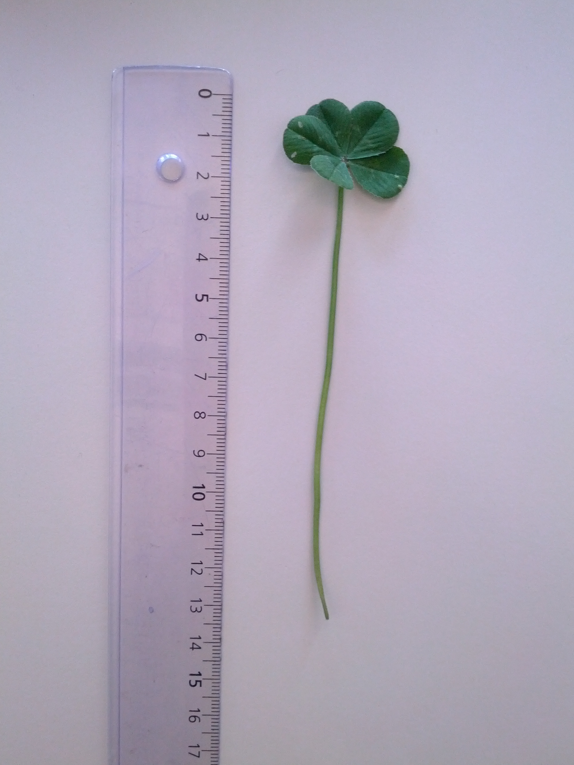 Five-leaf clover with graduated ruler in centimeters.